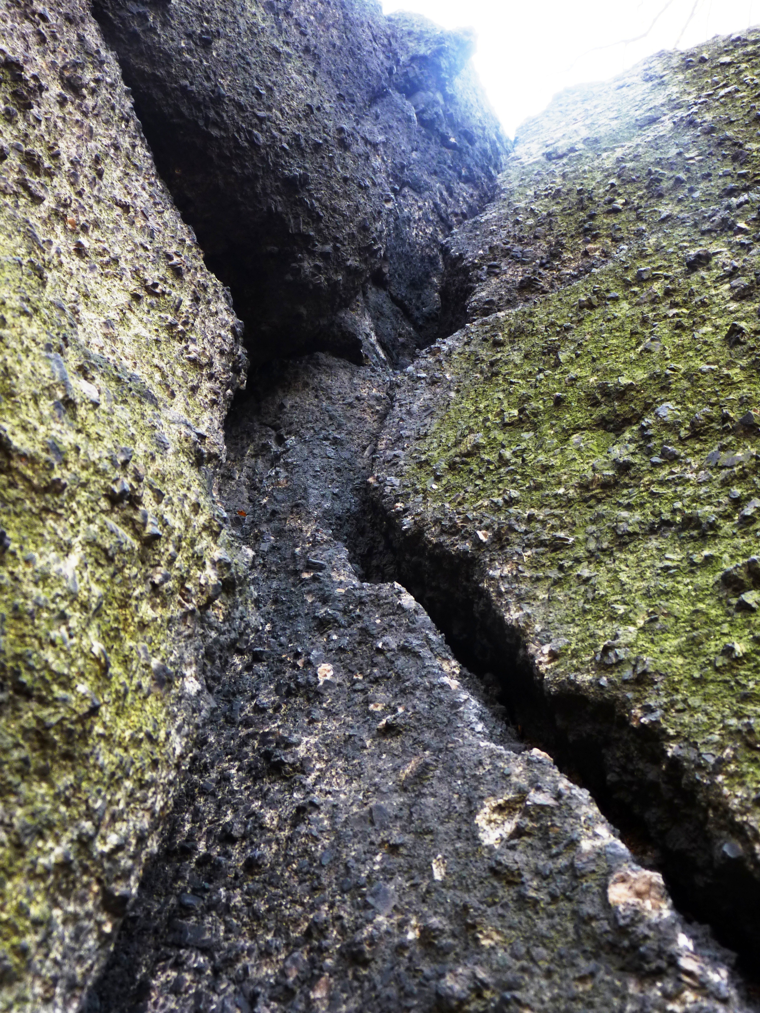 geologie